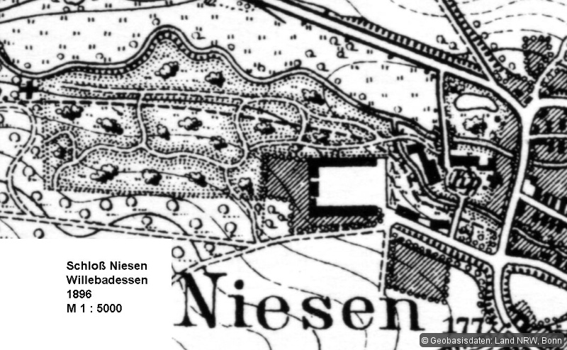 Königlich Preußische Landesaufnahme – Neuaufnahme, Ausschnitt Blatt 4320 1896: Willebadessen